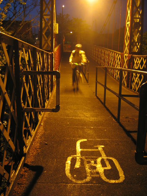 Gaol Ferry Bridge Gaol Ferry Bridge is a busy commuter route for bikes and pedestrians crossing the New Cut from Southville towards the City centre.